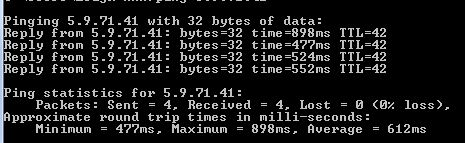 Attempt to "ping" the servers with the newly uploaded Wikitravel content, 9 Sept. 2012.